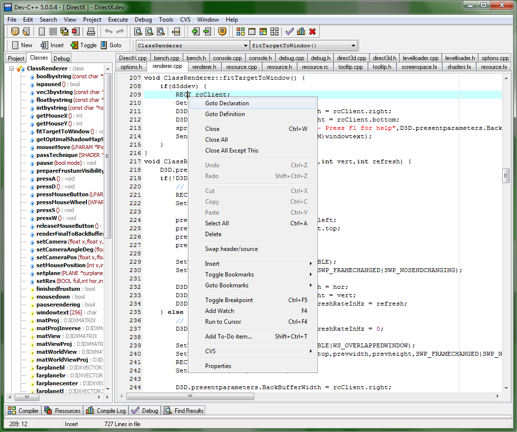 Dev-C++ 5.0.0.4 IDE